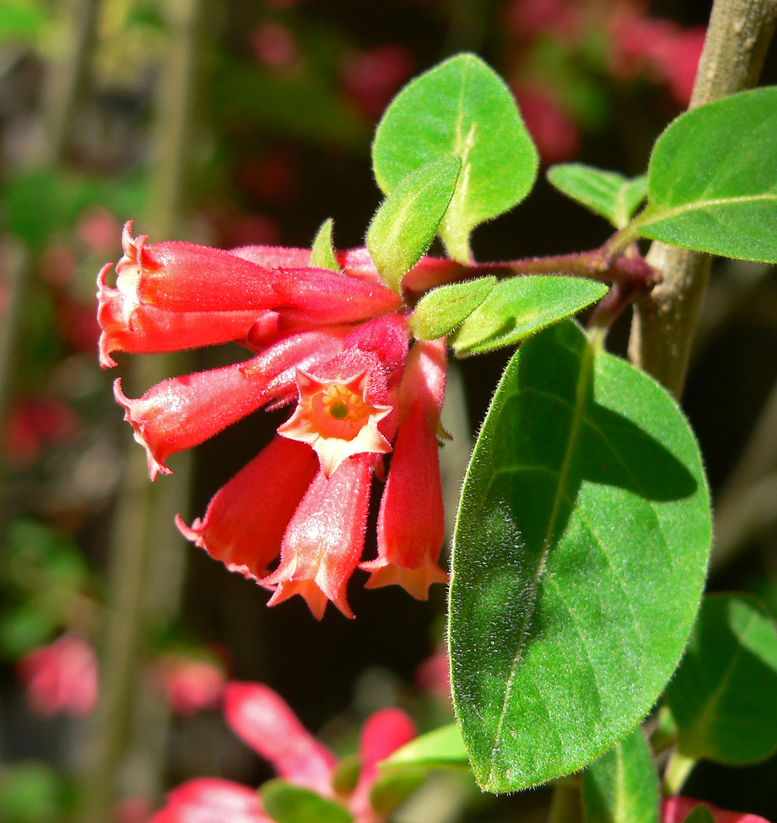 Cestrum fasciculatum at the University of California Botanical Garden, Berkeley, California